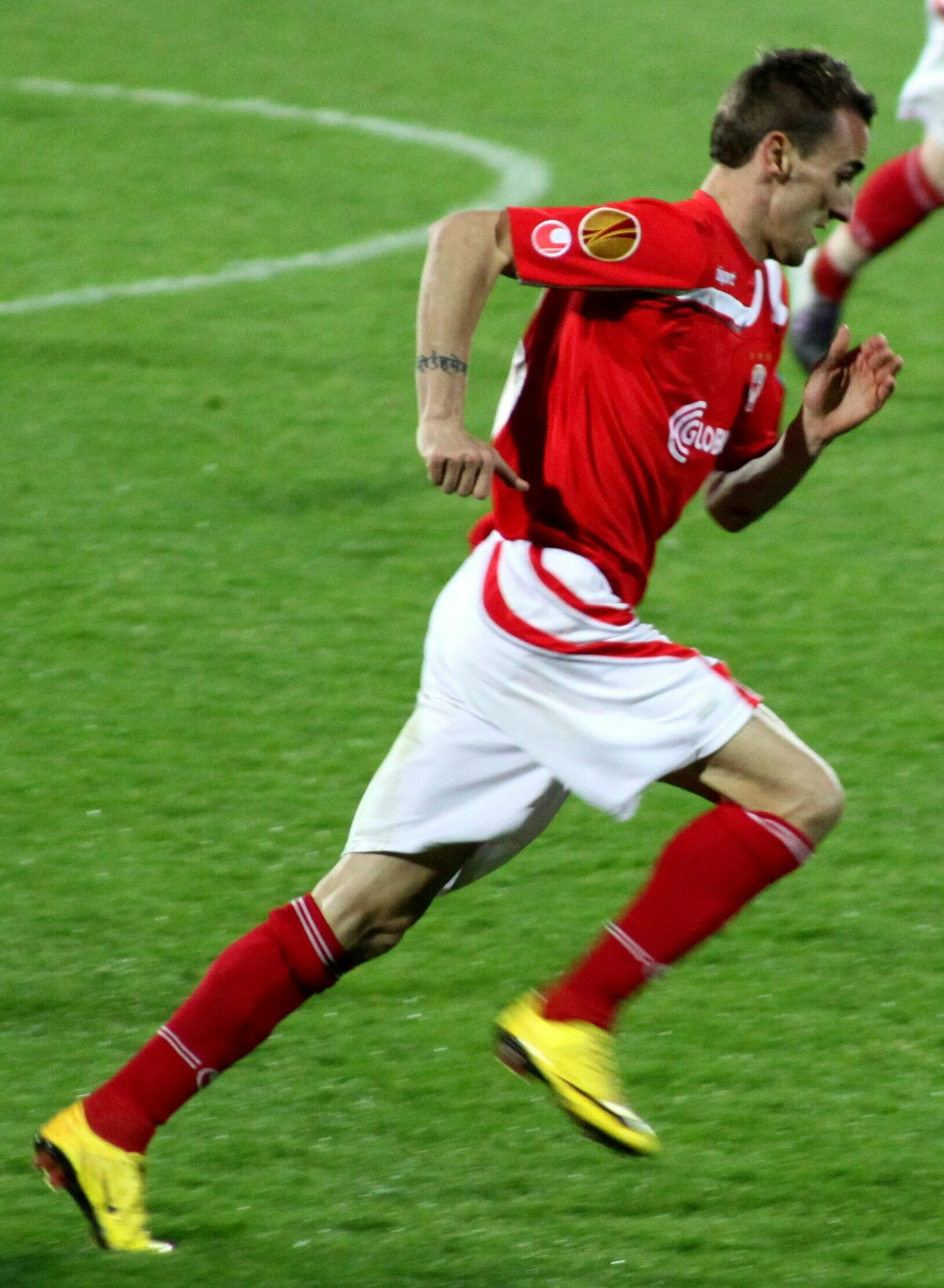 Yordan Minev (Bulgarian Cyrillic: Йордан Минев) (born 14 October 1980) is a football defender from Bulgaria currently playing for CSKA Sofia.